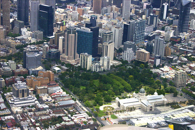 Aerial Photo of the Royal Exhibition Building, Carlton Gardens, and surrounding area, Melbourne.